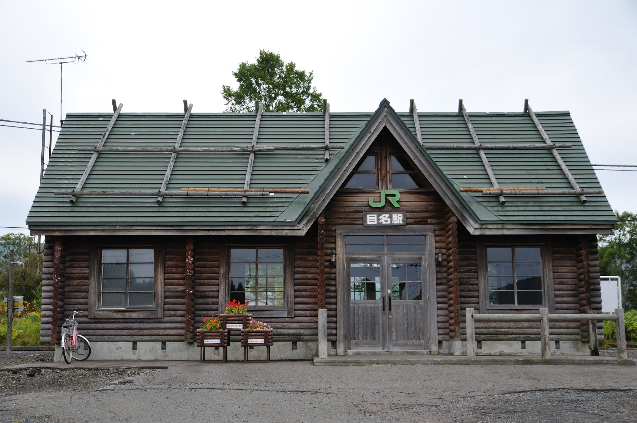 JR Hokkaido Mena station, Rankoshi, Hokkaido, Japan